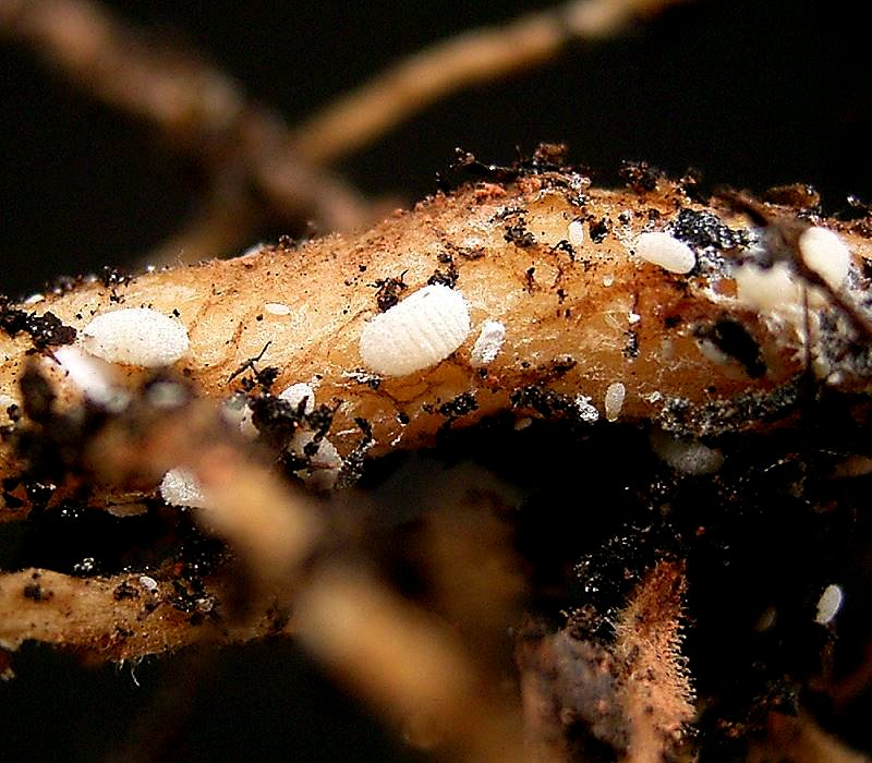 root mealy bug / Wurzellaus